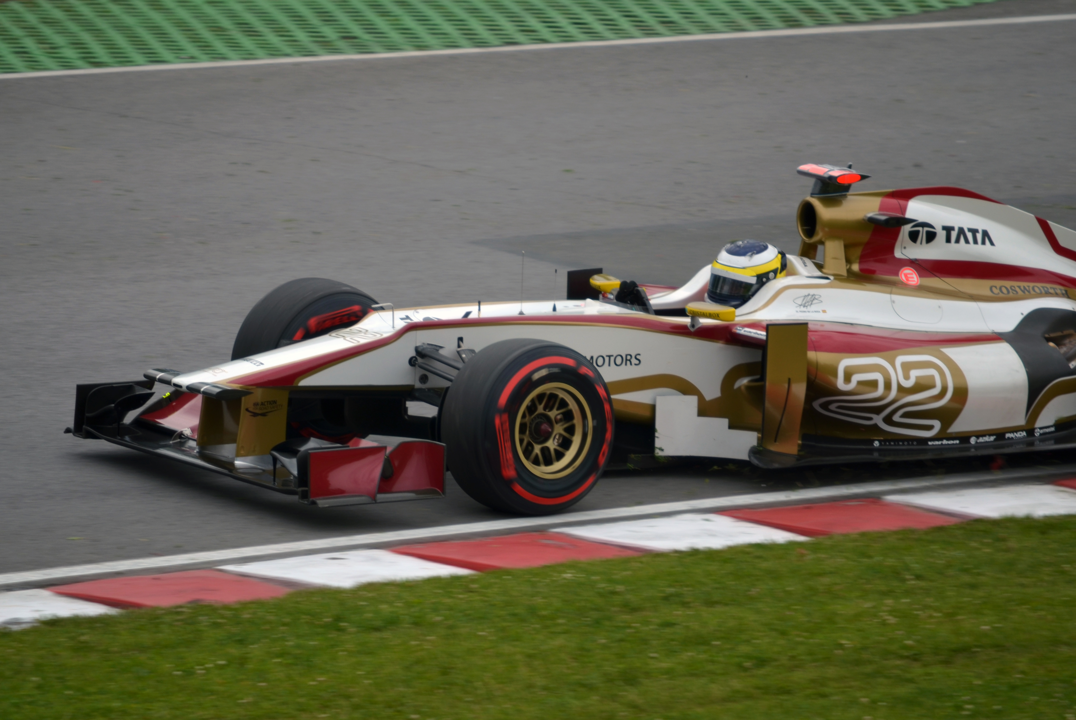 Pedro De La Rosa in the HRT - Cosworth F112 at turn 9 of Circuit Gilles Villeneuve during first practice for the 2012 Canadian Grand Prix